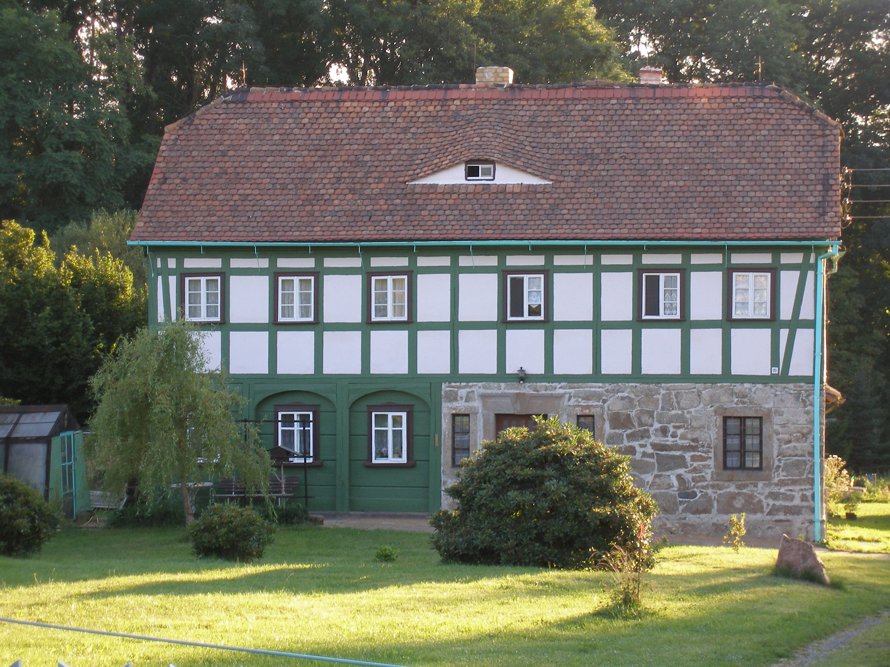 House in Niedercunnersdorf-Ottenhain, Saxony, Germany